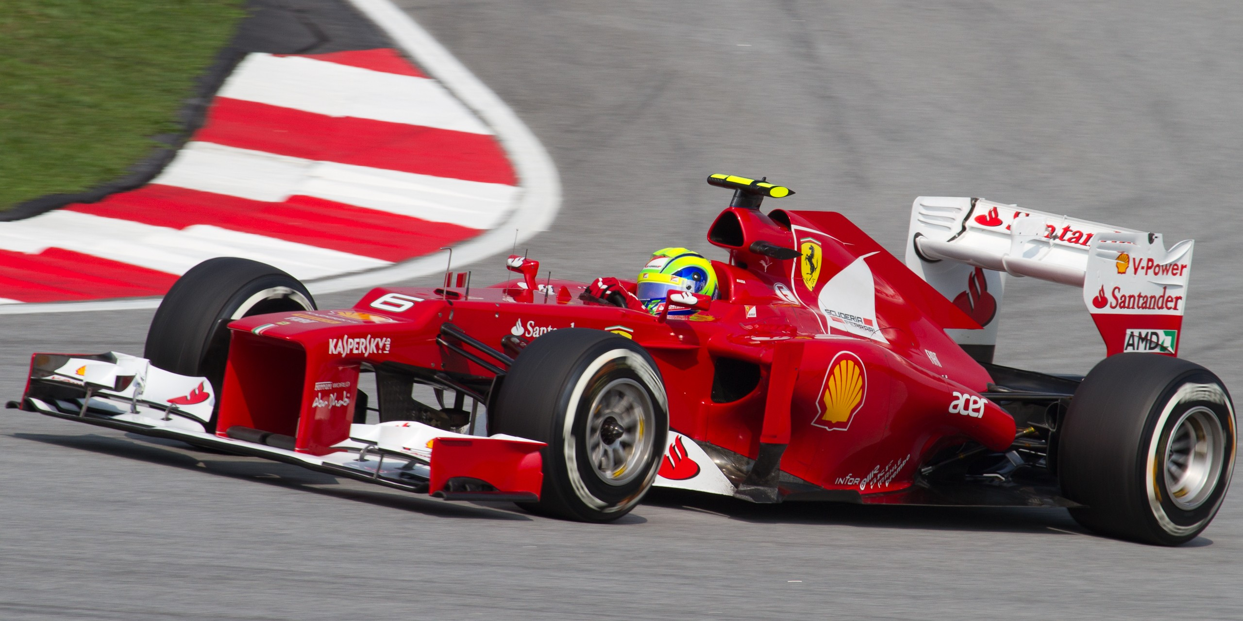 Formula One 2012 Rd.2 Malaysian GP: Felipe Massa (Ferrari) during the qualify session on Saturday.